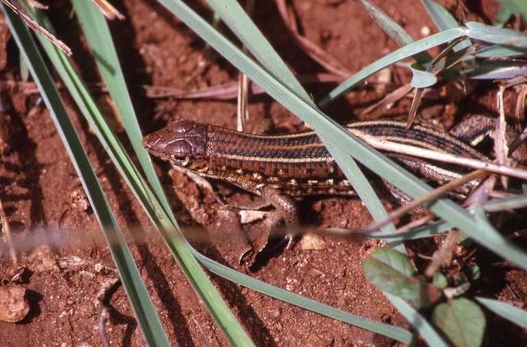 Tracheloptychus madagascariensis near Tulear, Madagascar